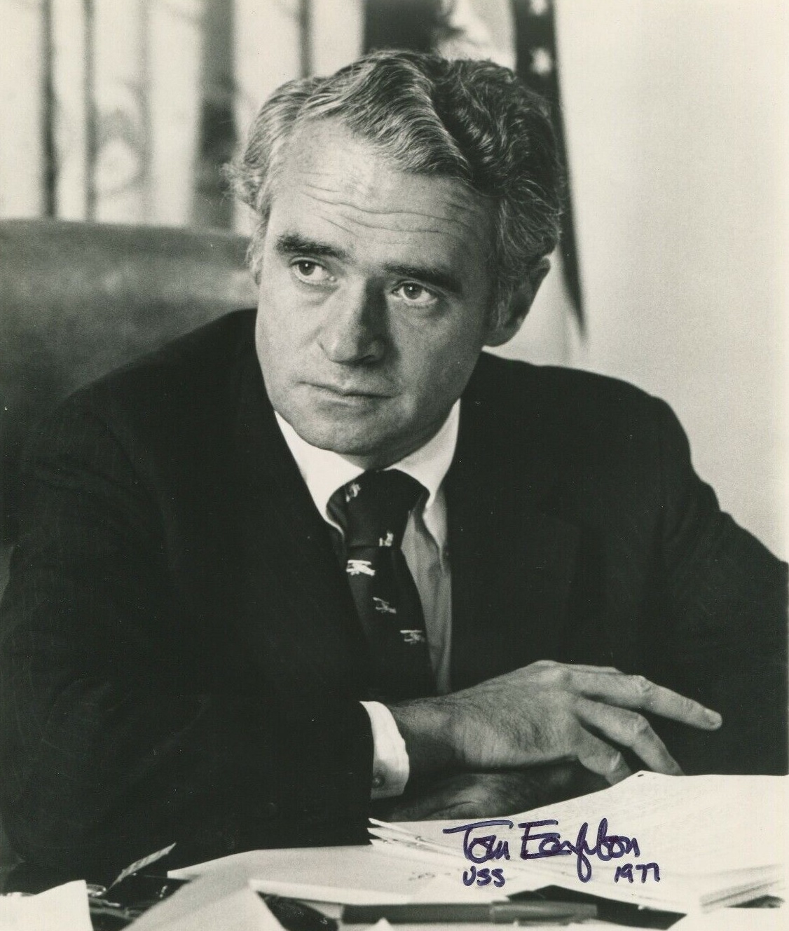 Thomas Francis Eagleton, US politician and Congressman.